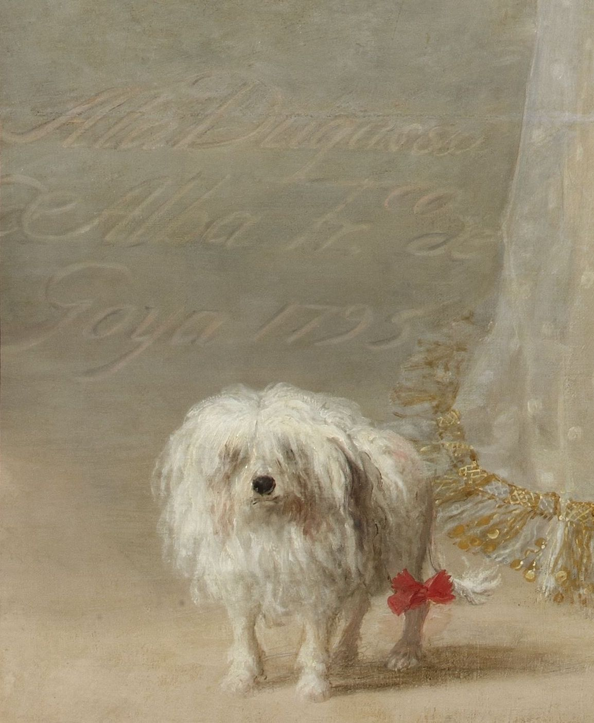 Detail from the well know Painting by Goya